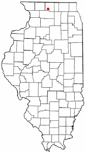 Category:Illinois city locator maps